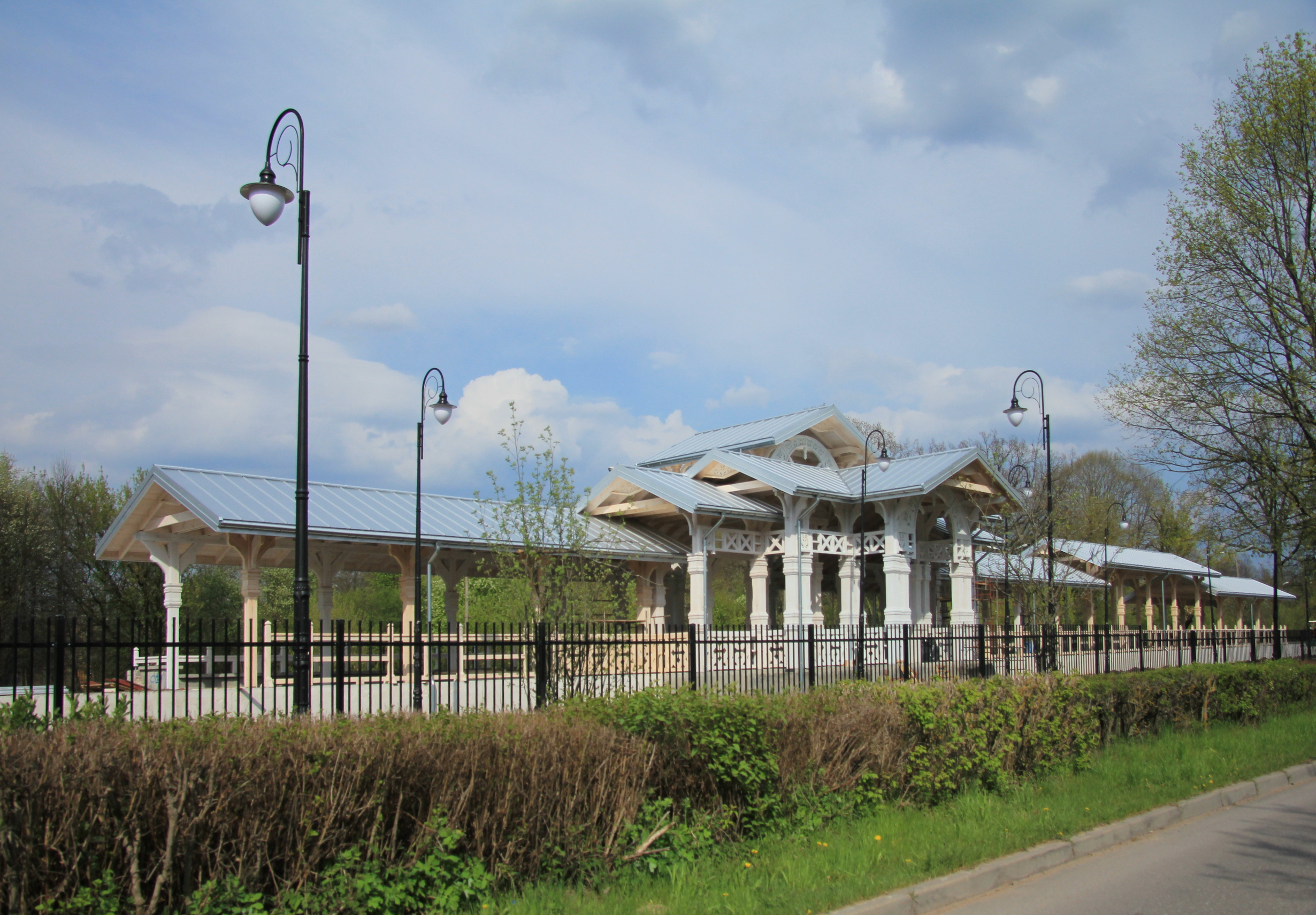 "Białowieża Pałac" train station (defunct) in Białowieża, Poland